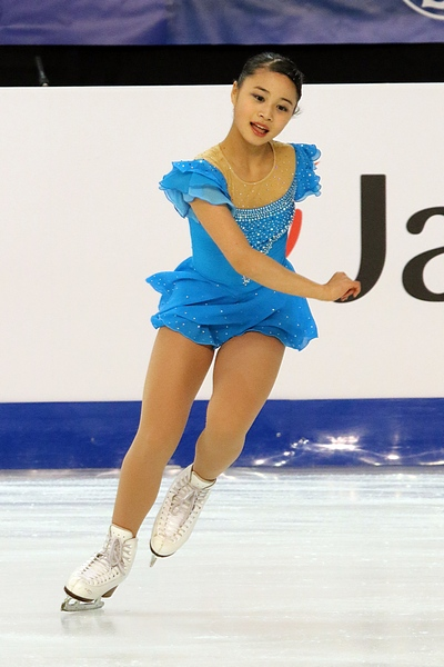 Photos – Junior World Championships 2016 – Ladies (Yuna SHIRAIWA JPN – 4th Place)